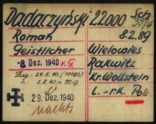 Roman Dadaczyński's prisoner registry card at Dachau Nazi Concentration Camp Legend: Geistlicher = ´Priest l. = Unmarried r.K. = Roman Catholic